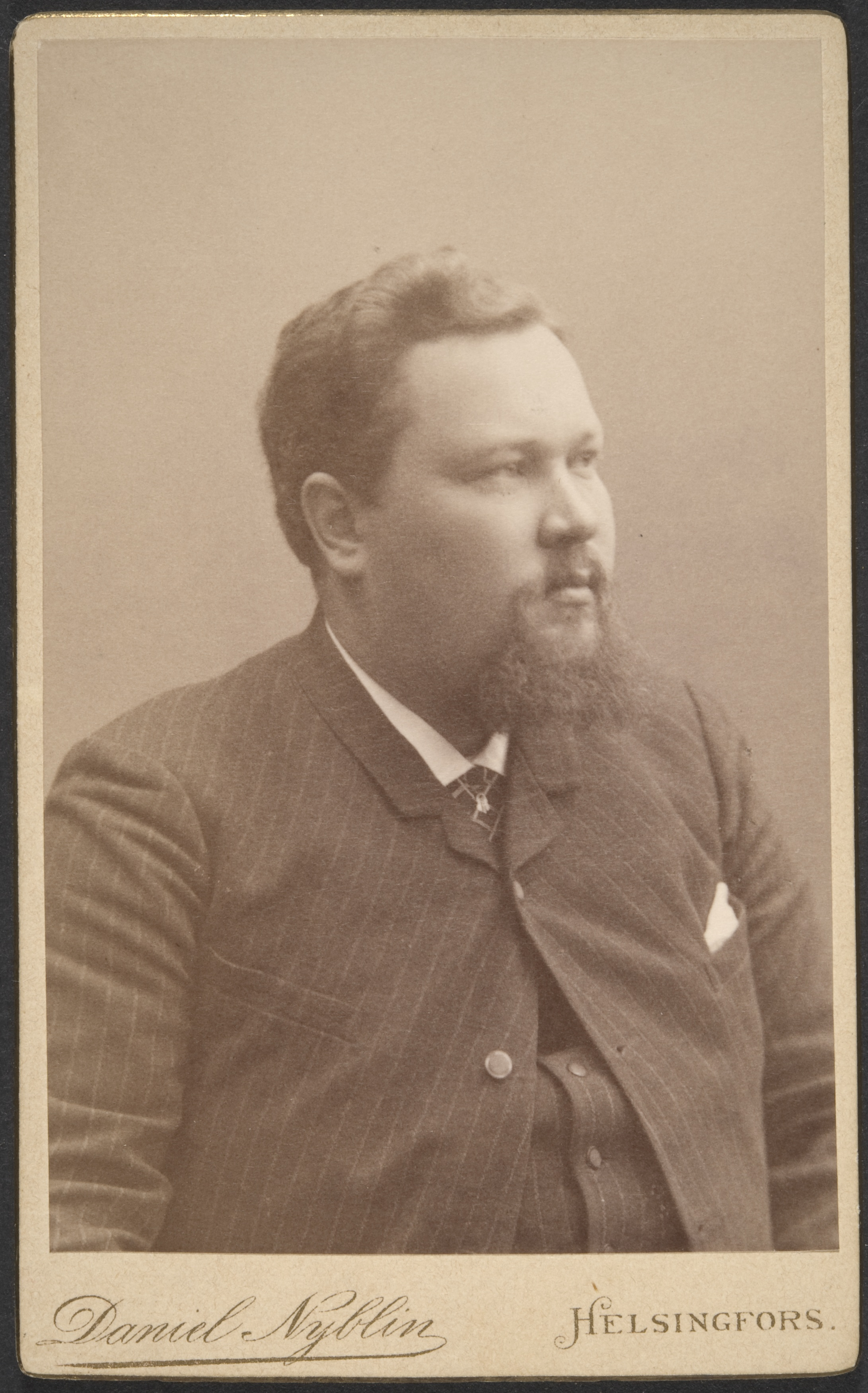 Photograph of the Finnish businessman Julius Tallberg (1857–1921).